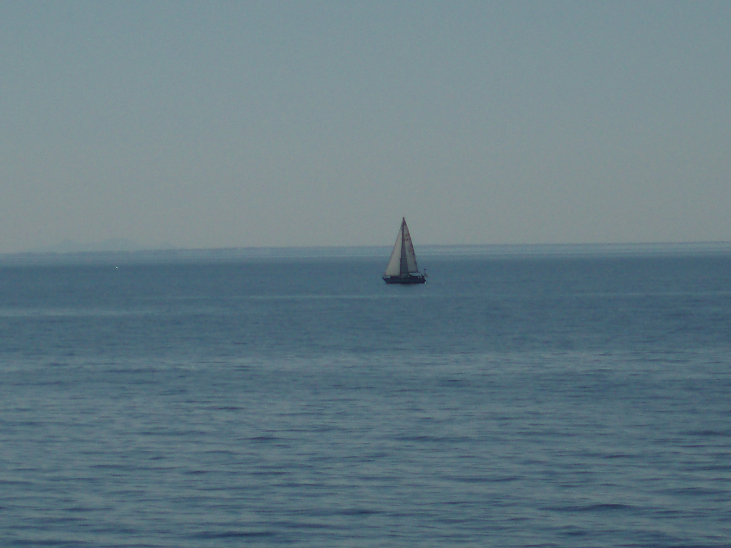 In the middle of Vestfjorden on the ferry between Skutvik and Svolvær. A calm, warm summer day.